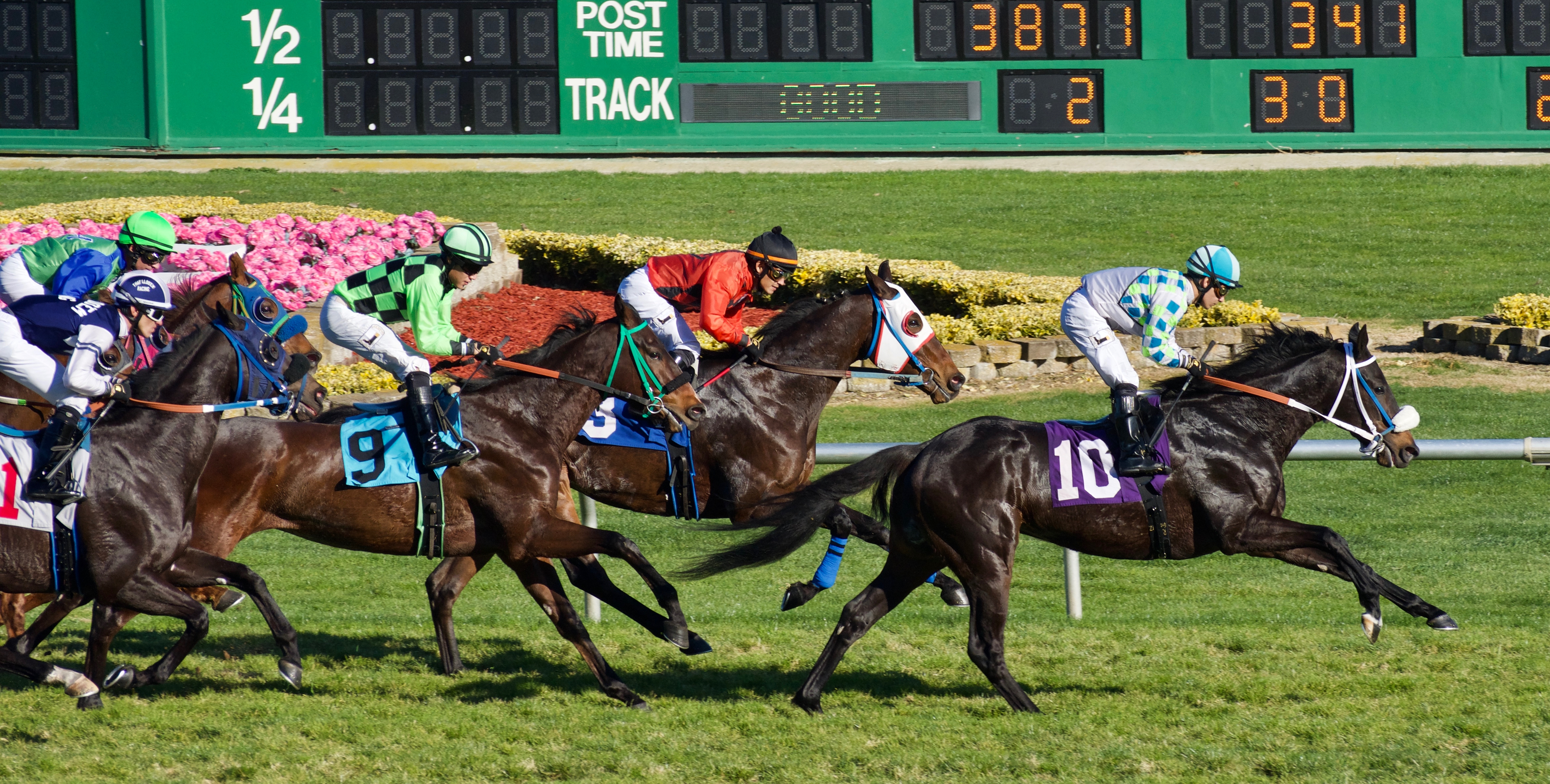 Horse racing at Golden Gate Fields, Albany, California. Race 4 on turf, 1 mile. Winner: #1 Aztec Warrior. Place: #5 White Falcon. Show: #10 Stormin G A. Also ran: El Nino Fable, Gator Don't Play, Lion Command, Hedoesitinstyle, Sumday Sumday, Hillbilly Rockstar, and Kentucky King. 26 December 2017.